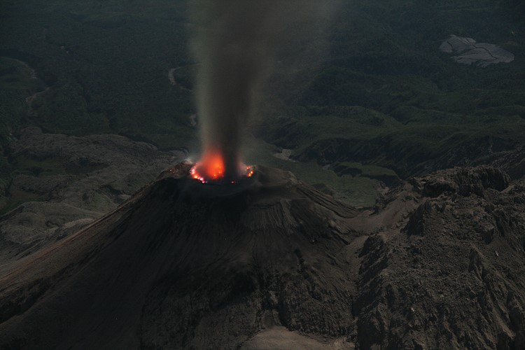 Nocturnal eruption of the Santiaguito volcano in Guatemala